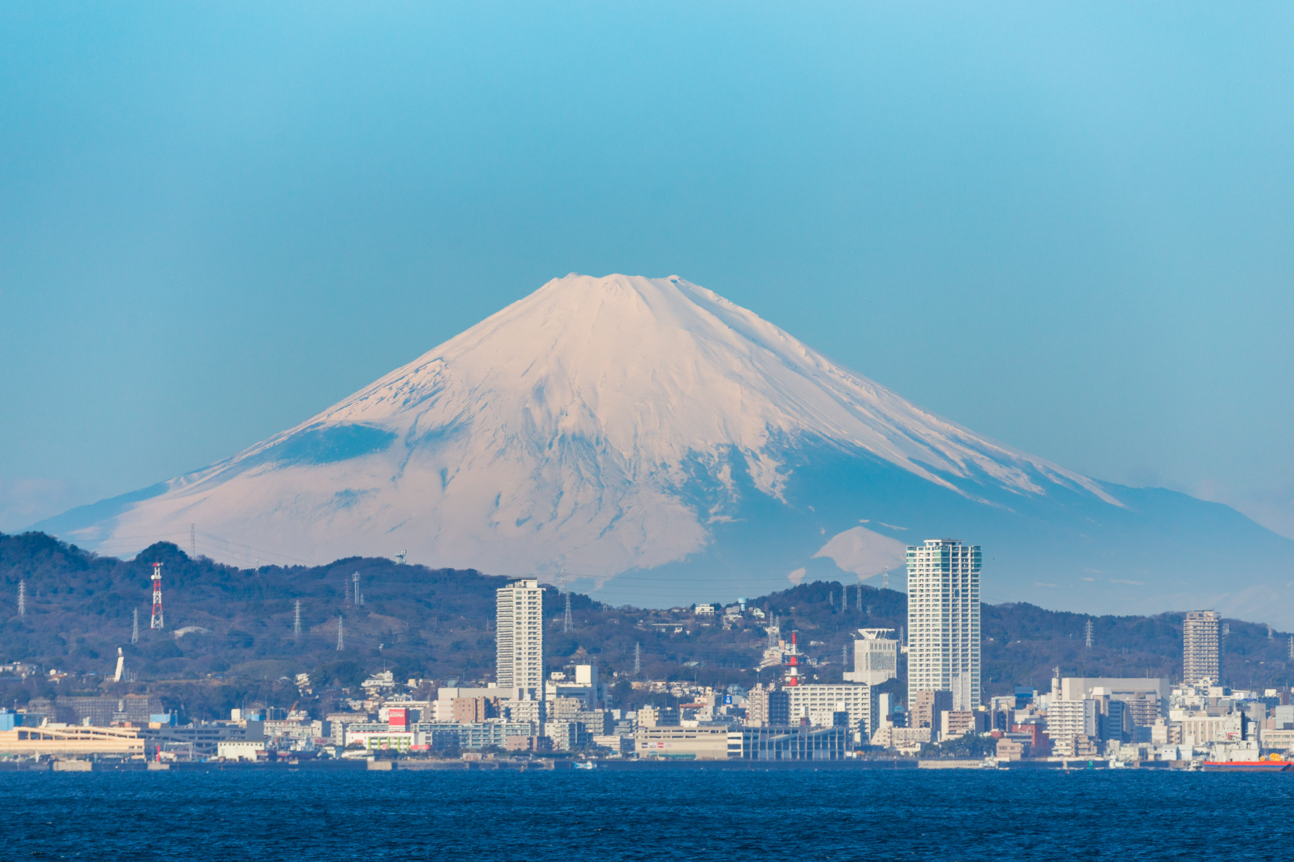 Yokosuka and Mt. Fuji seen from Uraga Channel